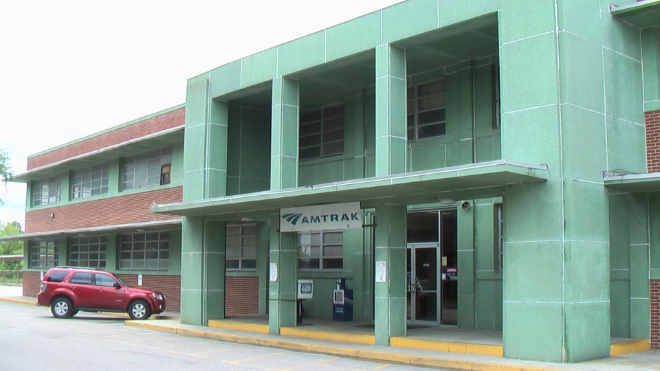 The Amtrak station building North Charleston, South Carolina.